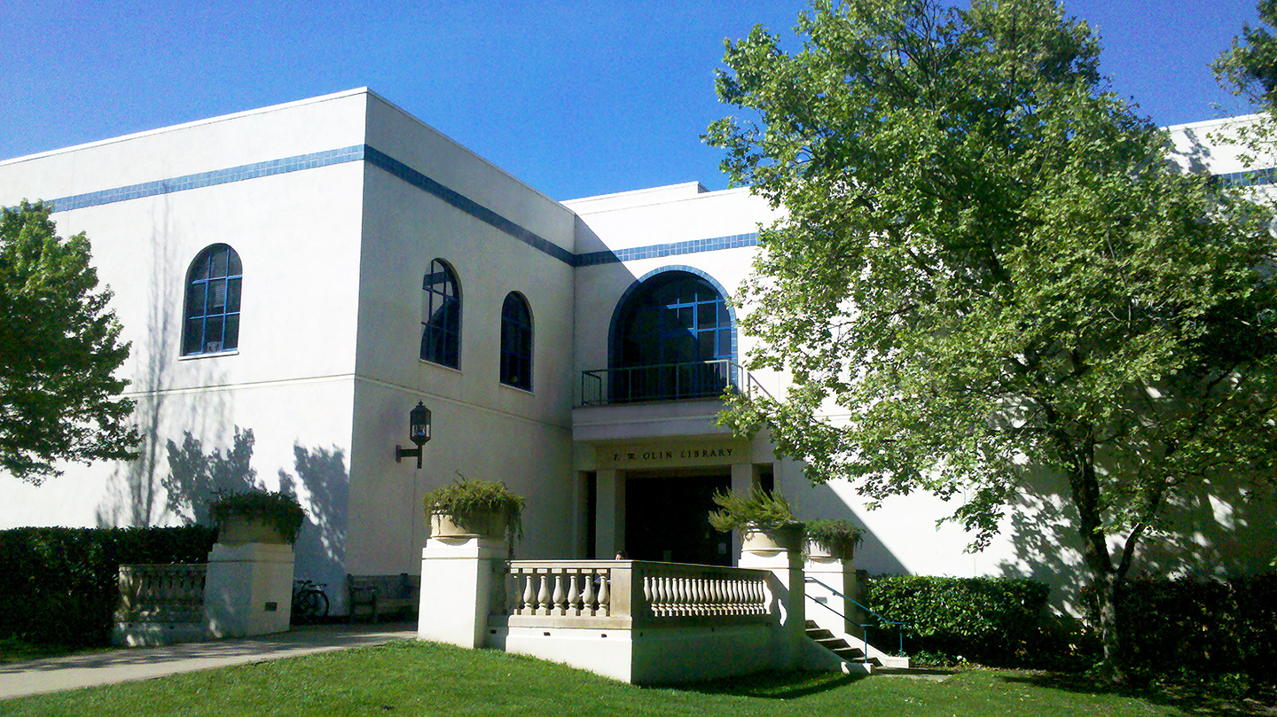 The F.W. Olin Library is centrally located on the Mills College campus and is home to the Heller Rare Book Room, Special Collections, and the Center for the Book.